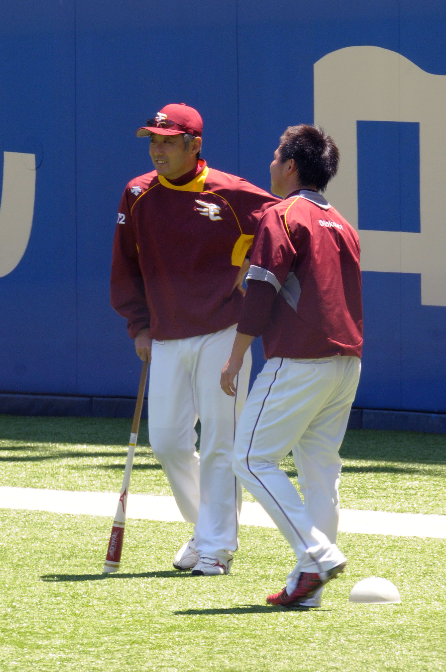 Ryoji Moriyama, coach of the Tohoku Rakuten Golden Eagles, at Chiba Marine Stadium